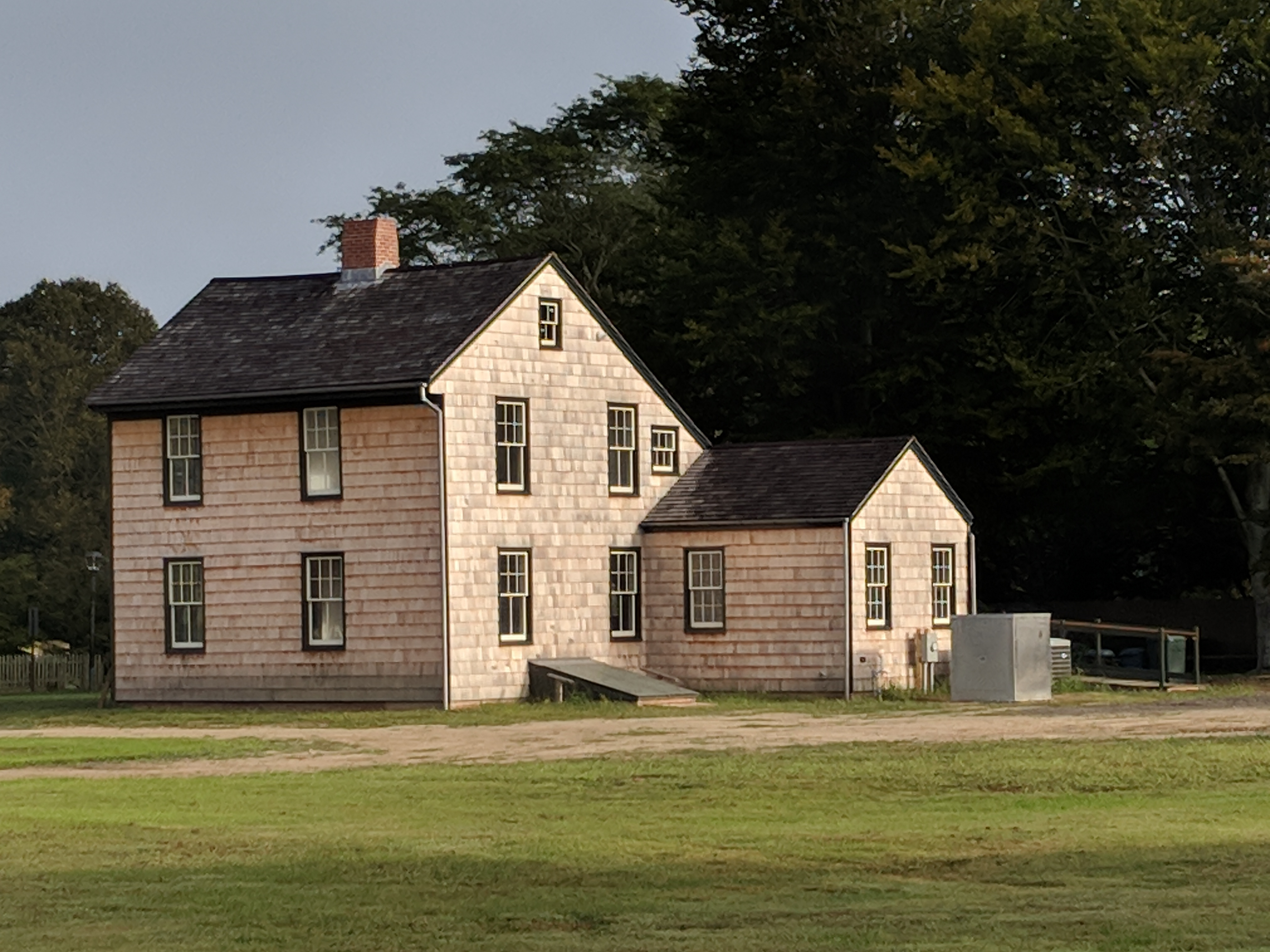 A re-constructed Saltbox home.